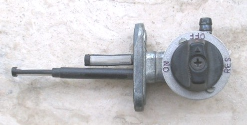 Tap fuel positioned in three locations: Open, reserves and closed